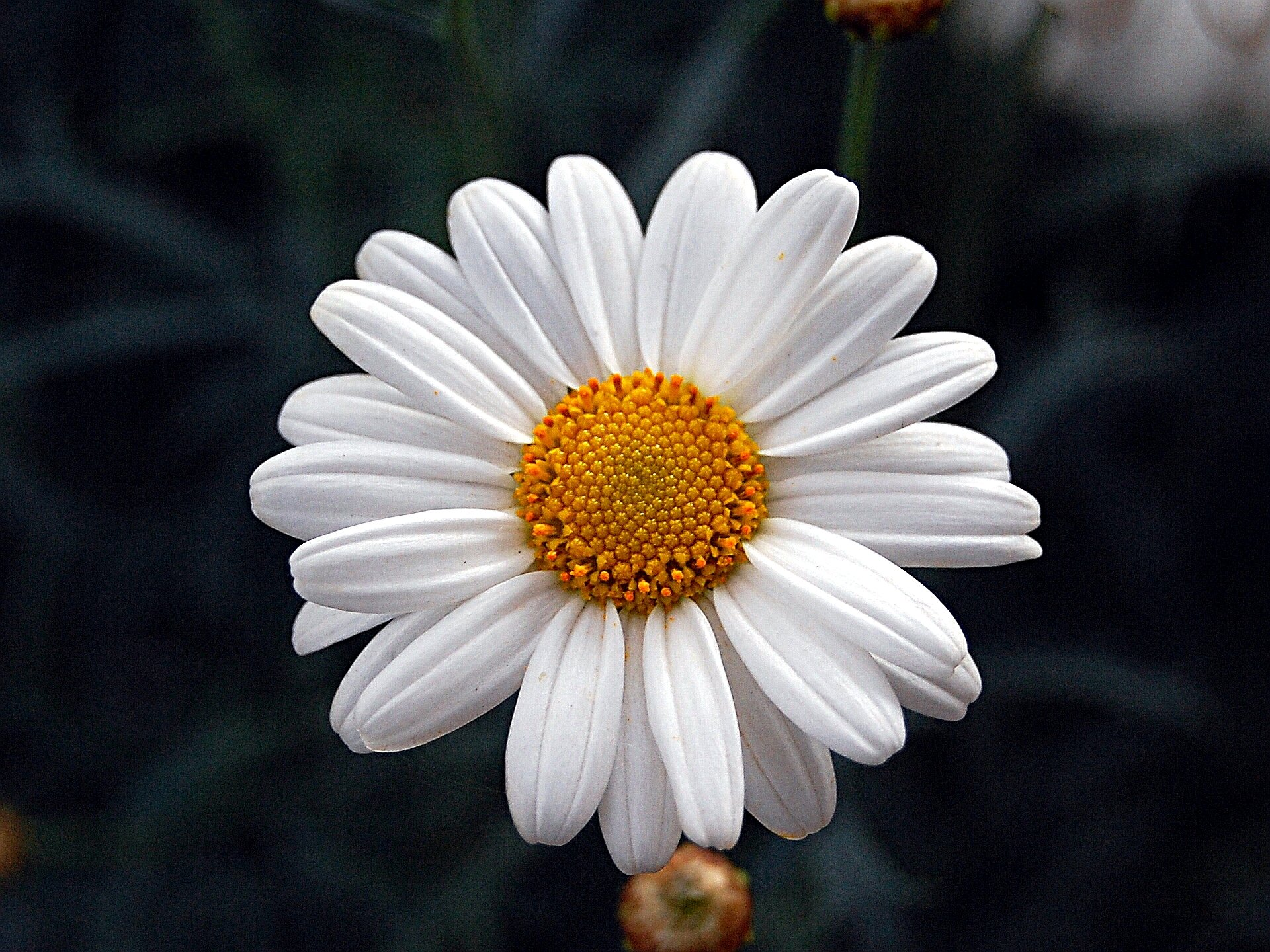 Daisy, Leucanthemum vulgare or Chrysanthemum leucanthemum